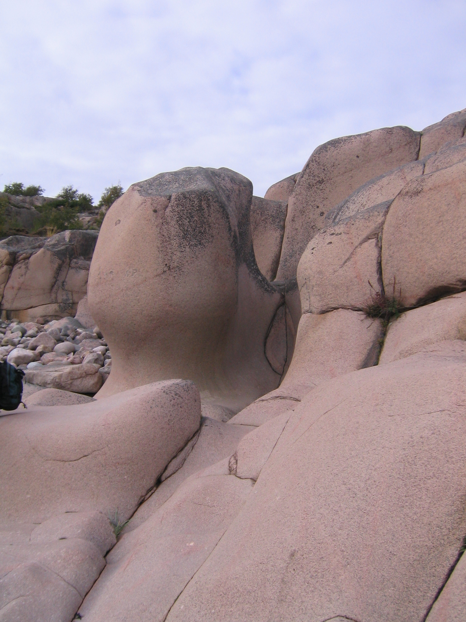 The formation of Kallskar in the Archipelago of Aland, Finland.